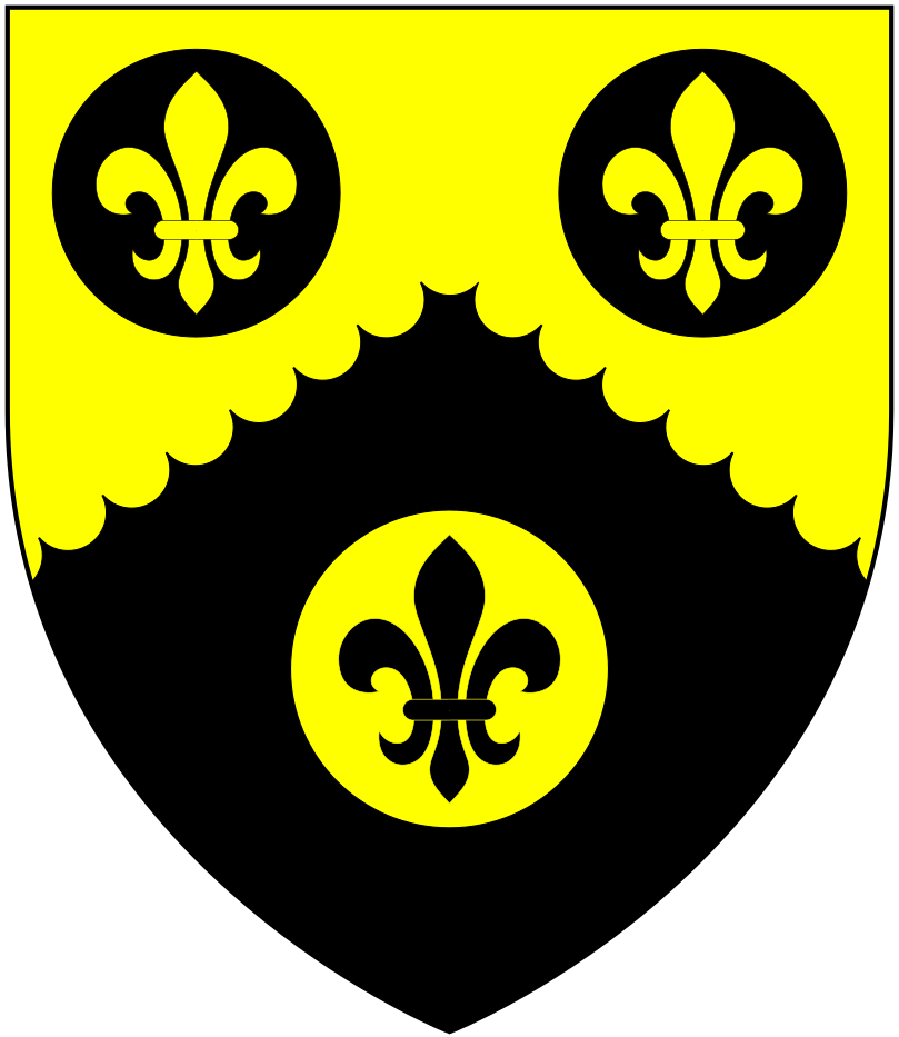 Arms of Mallock of Cockington Court in the parish of Cockington, Devon: Per chevron engrailed or and sable on three roundels three fleurs-de-lys all counterchanged (Vivian, Lt.Col. J.L., (Ed.) The Visitations of the County of Devon: Comprising the Heralds' Visitations of 1531, 1564 & 1620, Exeter, 1895, p.546)